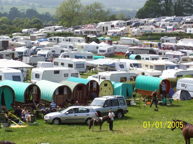 Appleby Horse Fair 2007 Gypsy Caravans & Horses Appleby Horse Fair 2007 Gypsy Caravans & Horses